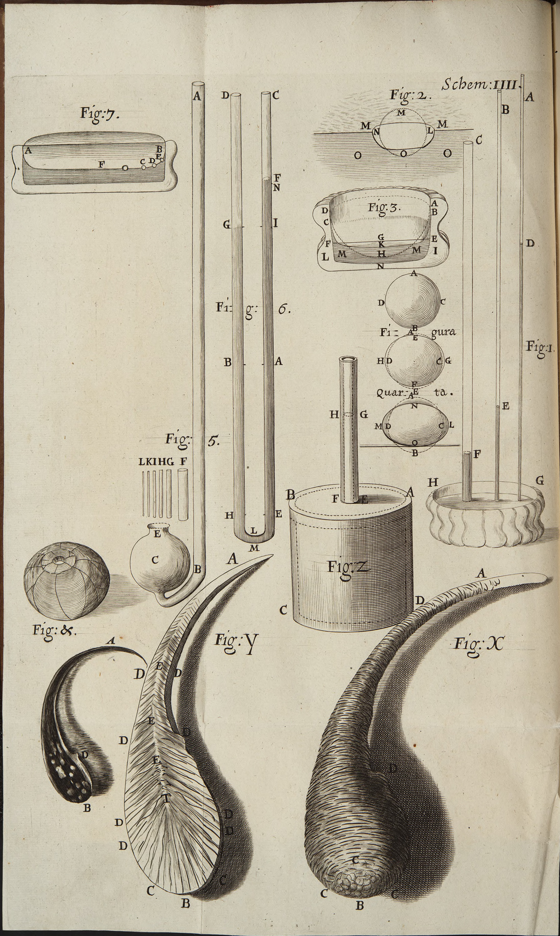 Schem. IV - Of Small Glass Canes and Of some Phænomena of Glass drops.